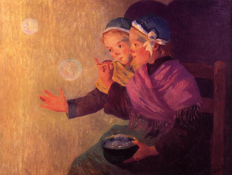 Oil painting reproduction of Ferdinand du Puigaudeau.